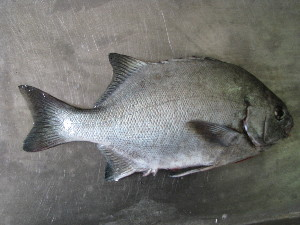 Dichistius capensis (Dichistius)